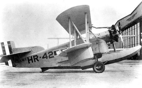 Loening XHL-1 (Model C-2H) air ambulance.